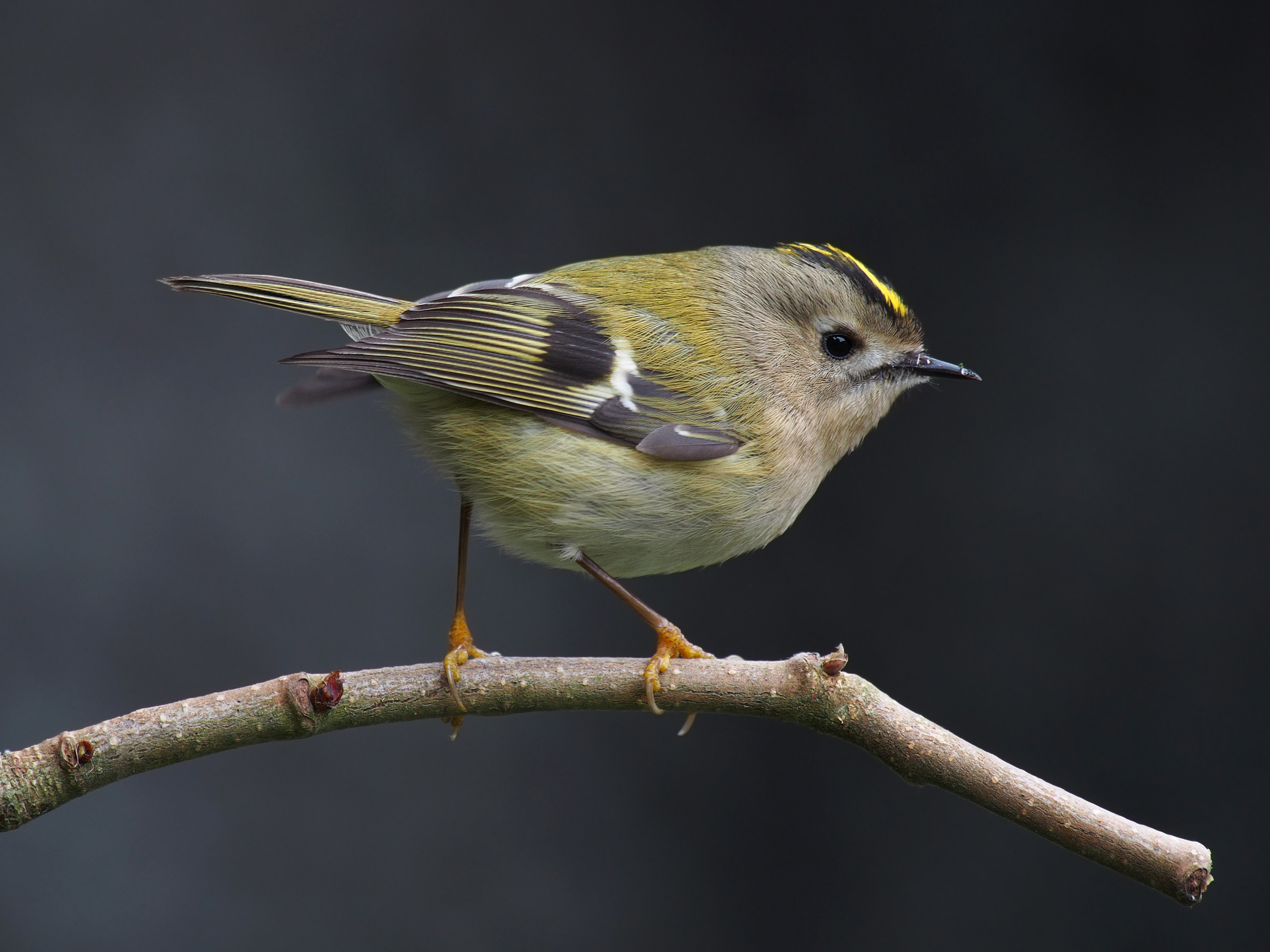 Goldcrest female, Regulus regulus, Lancashire, UK